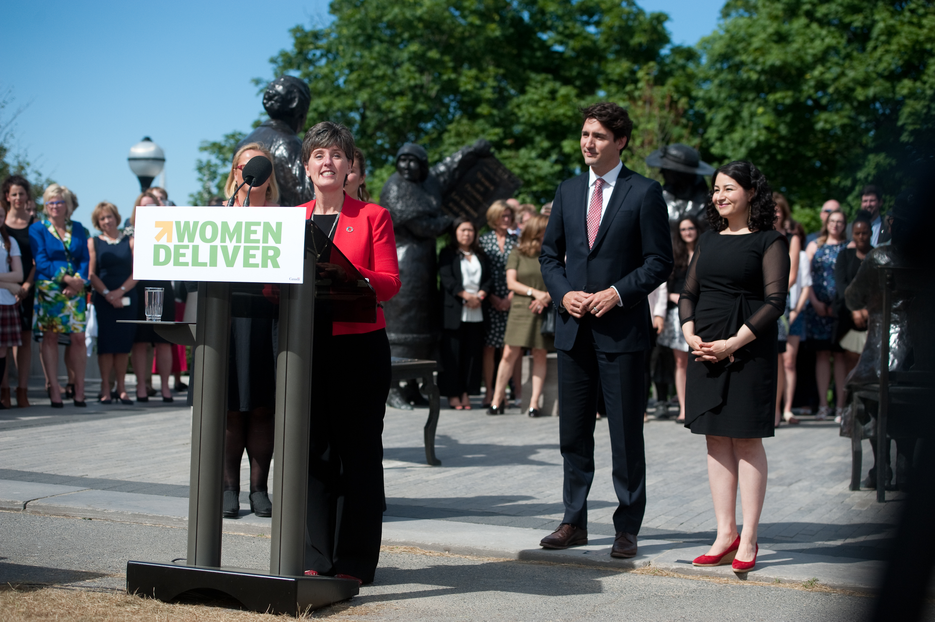 On June 13, 2017 The Right Honourable Justin Trudeau, Prime Minister of Canada, and President/CEO of Women Deliver Katja Iversen announced that Vancouver, Canada will be the official location for the Women Deliver 2019 Conference. They were joined by Madame Sophie Grégoire Trudeau, Minister Marie-Claude Bibeau, and Minister Maryam Monsef.